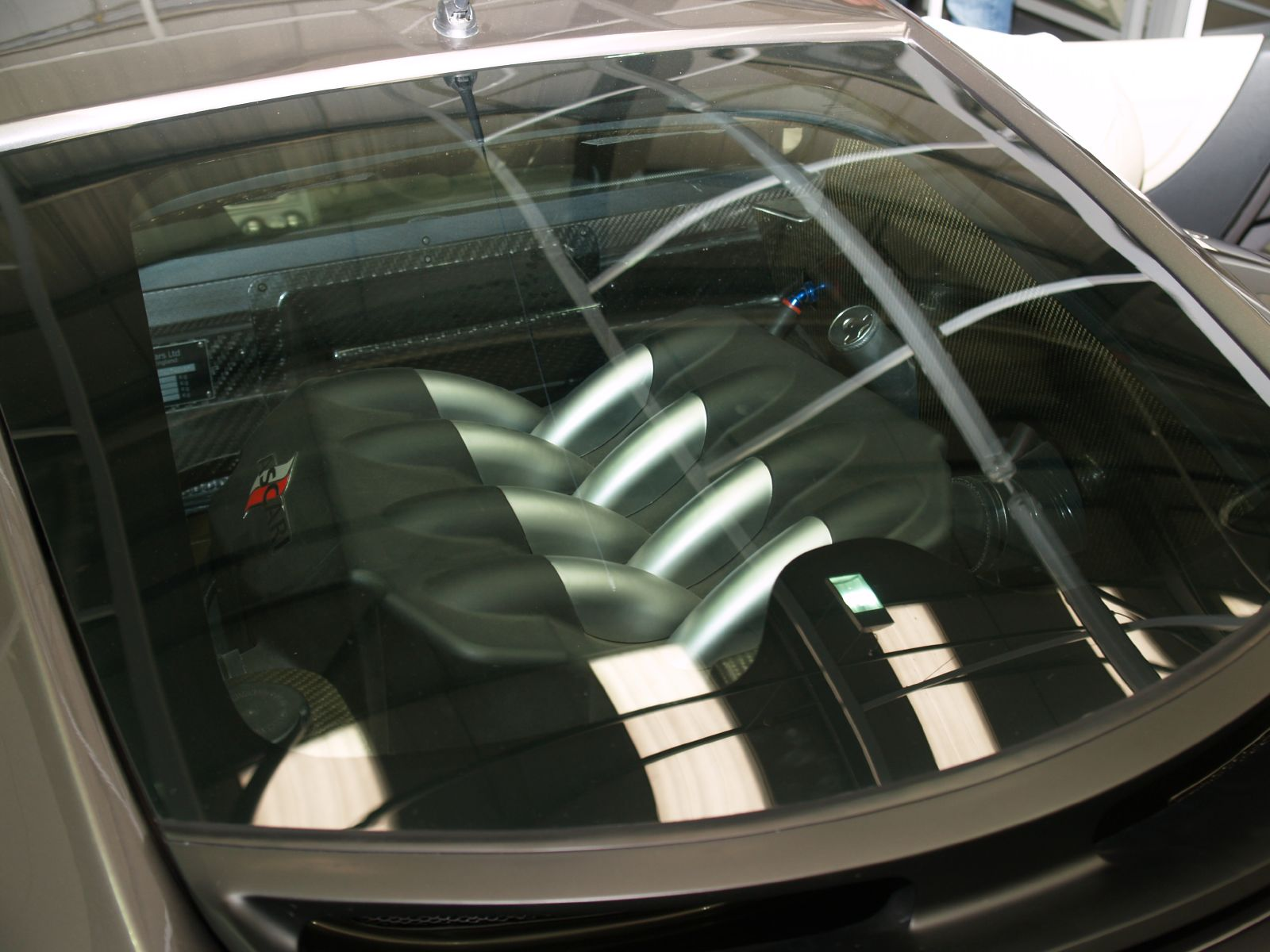 The BMW engine inside an Ascari KZ1